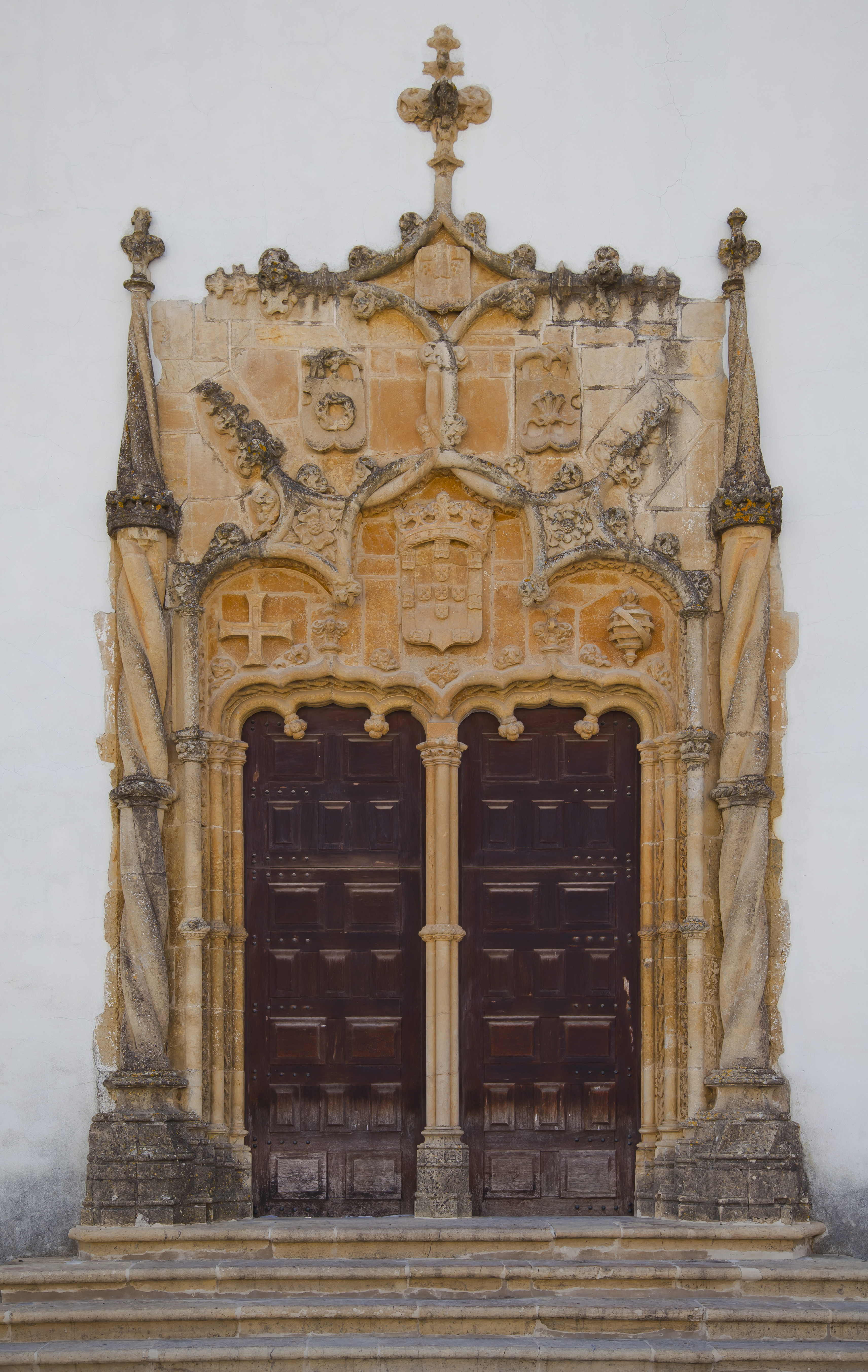 Chapel of Saint Michael, University of Coimbra, Portugal